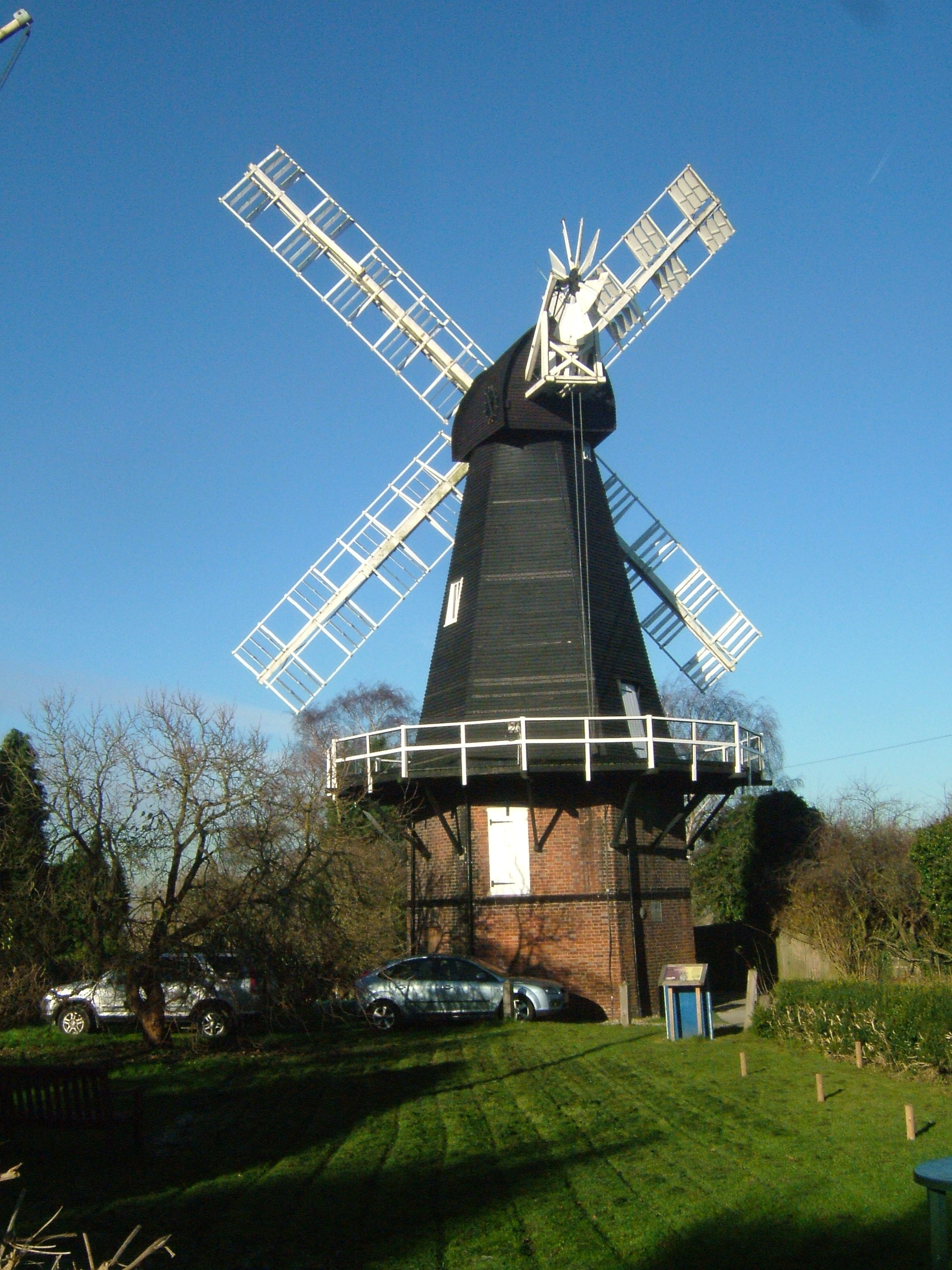 Meopham in Kent, is a linear village in Kent, England. The mill was built in 1801 by the Killick Brothers from Strood. The windmill (portrait). - Google Maps - Google Earth